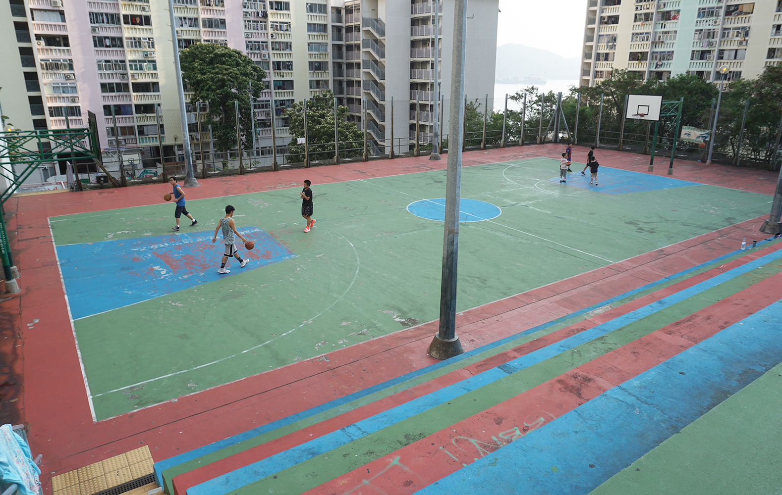 Wah Fu (I) Estate in Pok Fu Lam, Hong Kong.